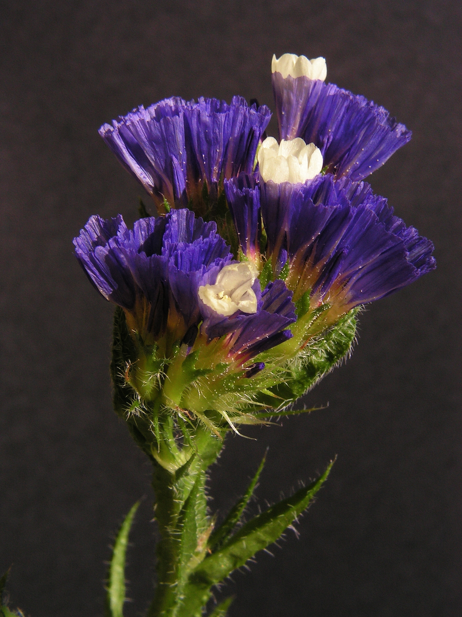 Compound inflorescence of Wavyleaf Sea-lavender (the bluish calyces and whitish corollas are in sight).